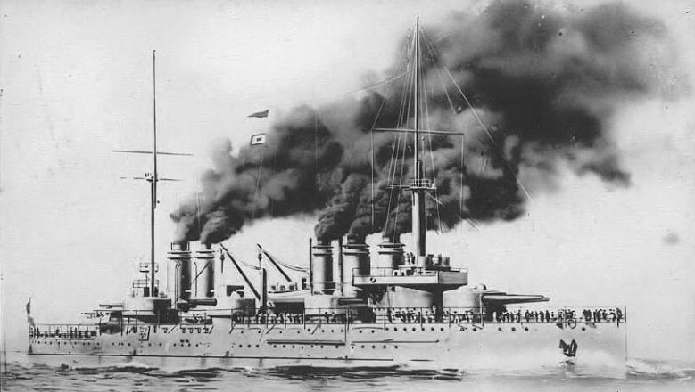 French battleship Condorcet